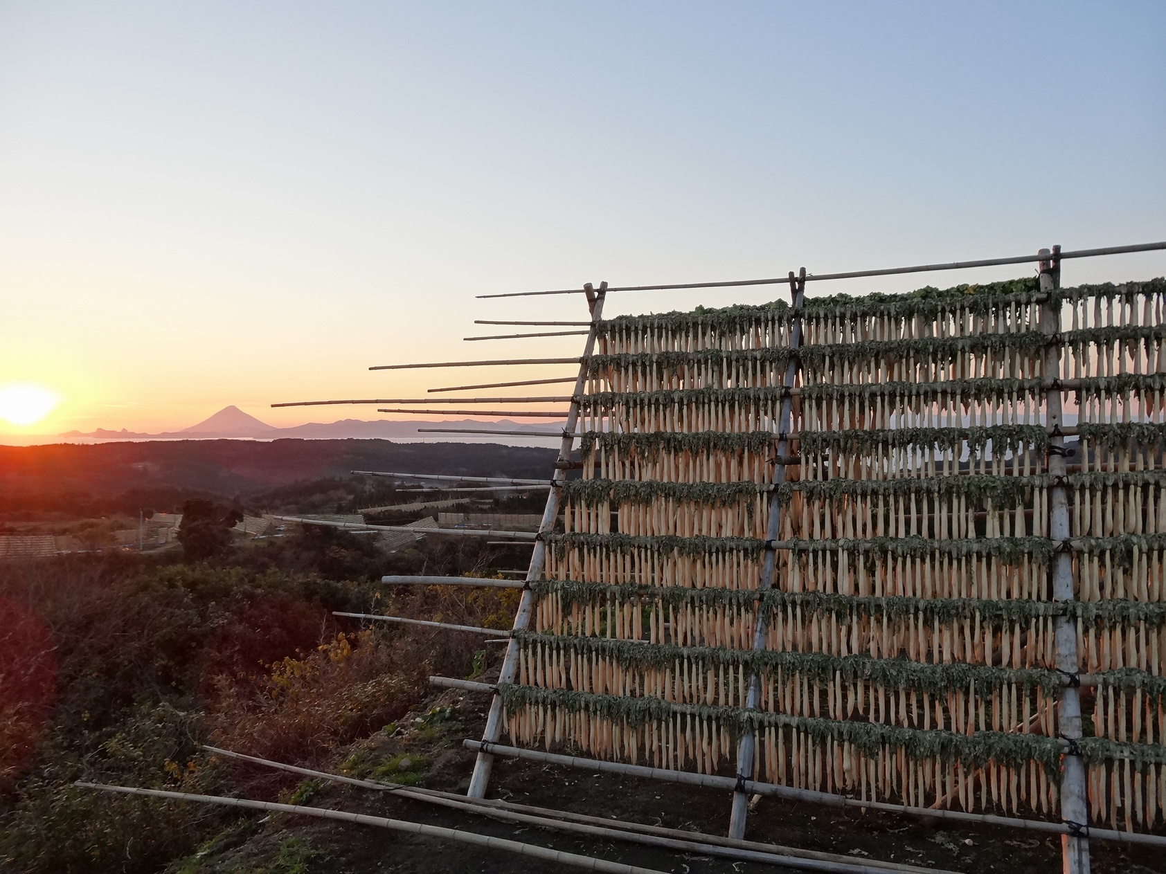 The Daikon-Yagura at Yadorihara District, Kinko Town, Kagoshima, Japan.